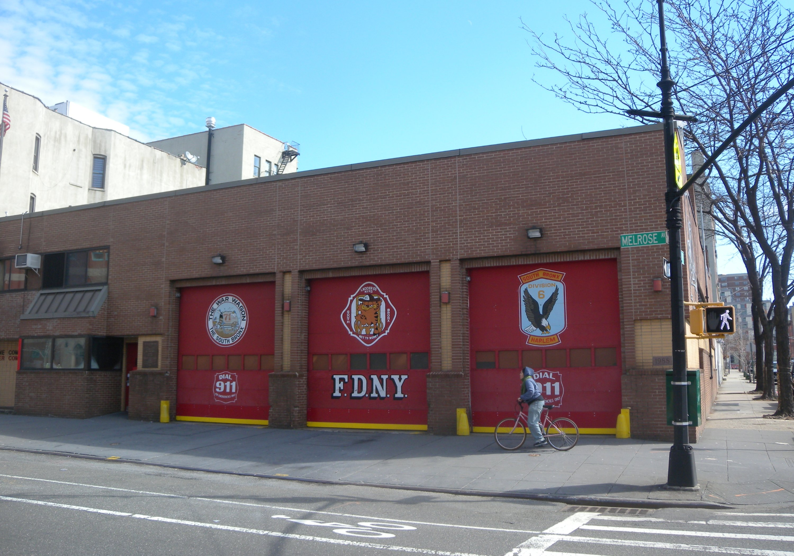 Looking east across Melrose Avenue at Engine 51 Ladder 55 Division 6 firehouse on a sunny midday.